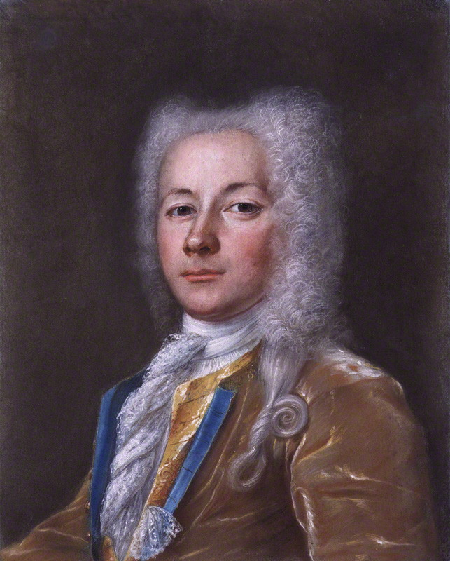 British diplomat, secretary to the British Embassy at Cambray